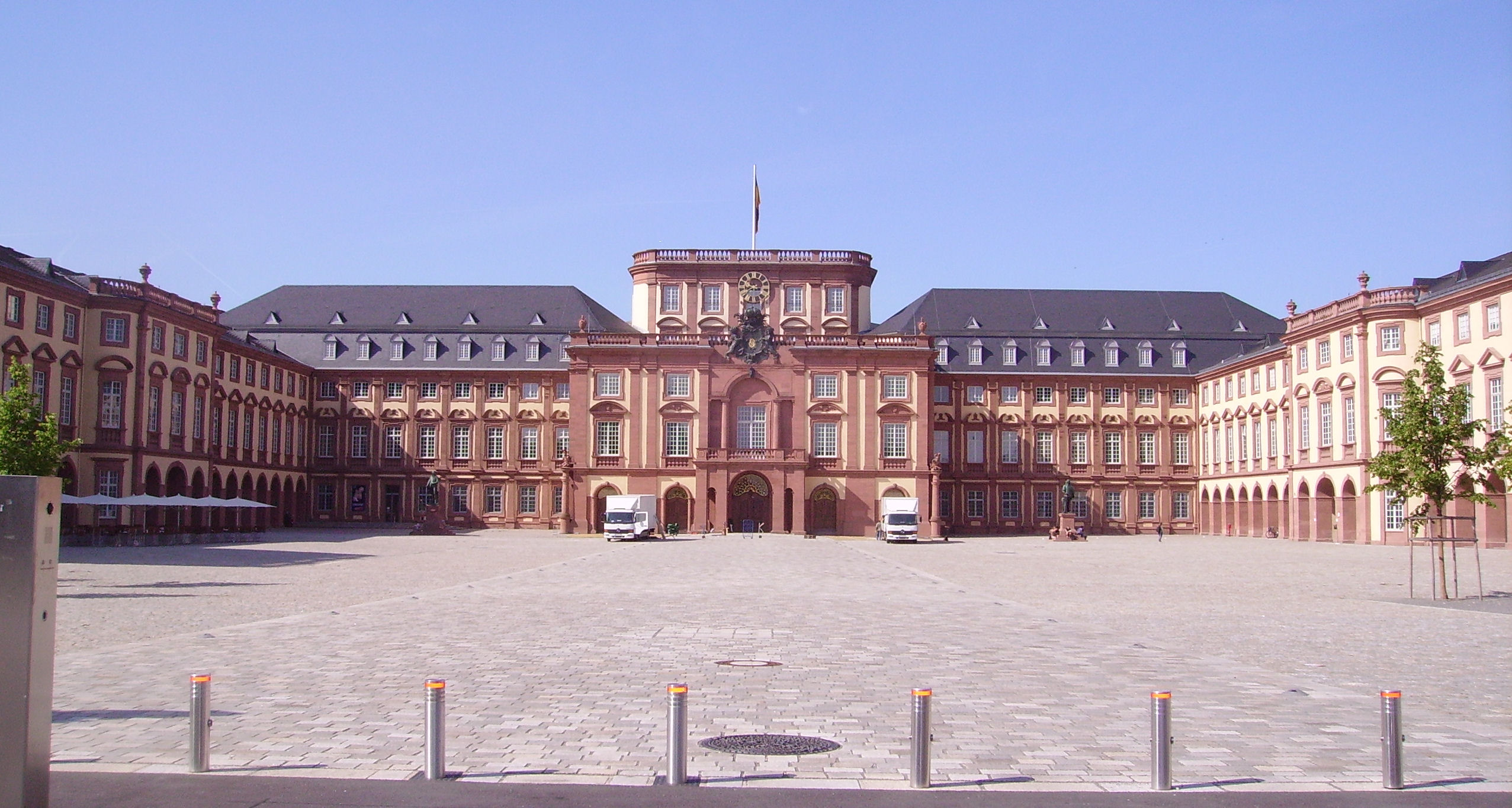 Mannheim Palace, Germany